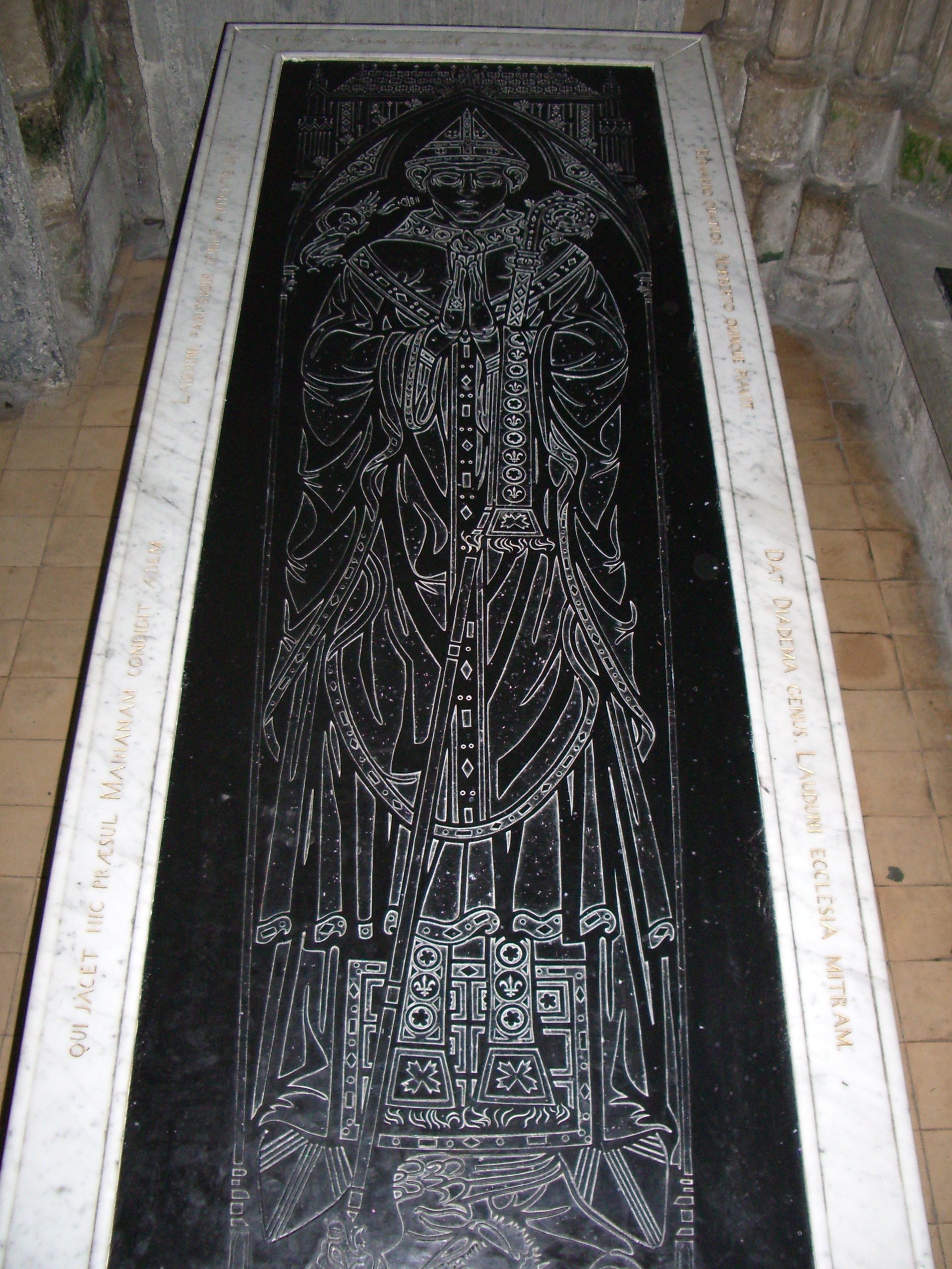 Top of a sarcophagi in Laon's cathedral, Aisne, France